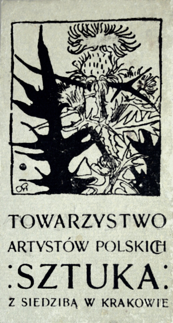 Hand-painted logo design of the Society of Polish Artists "Sztuka" founded in 1897 in Kraków (first print).